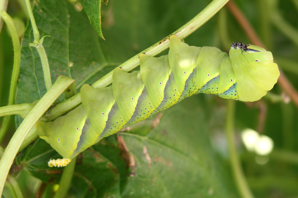 I believe it is a caterpillar of a Dead's Head Hawk moth (please tell me if I am wrong!) found throughout the Middle east and the Mediterranean and due to our milder winters it is now found in the south of the UK.